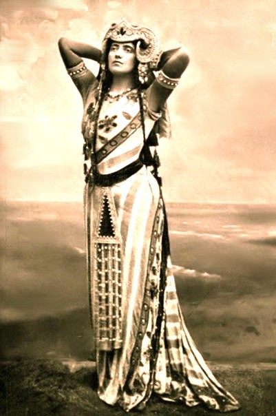 Solomiya Krushelnytska as Aida in opera by Giuseppe Verdi